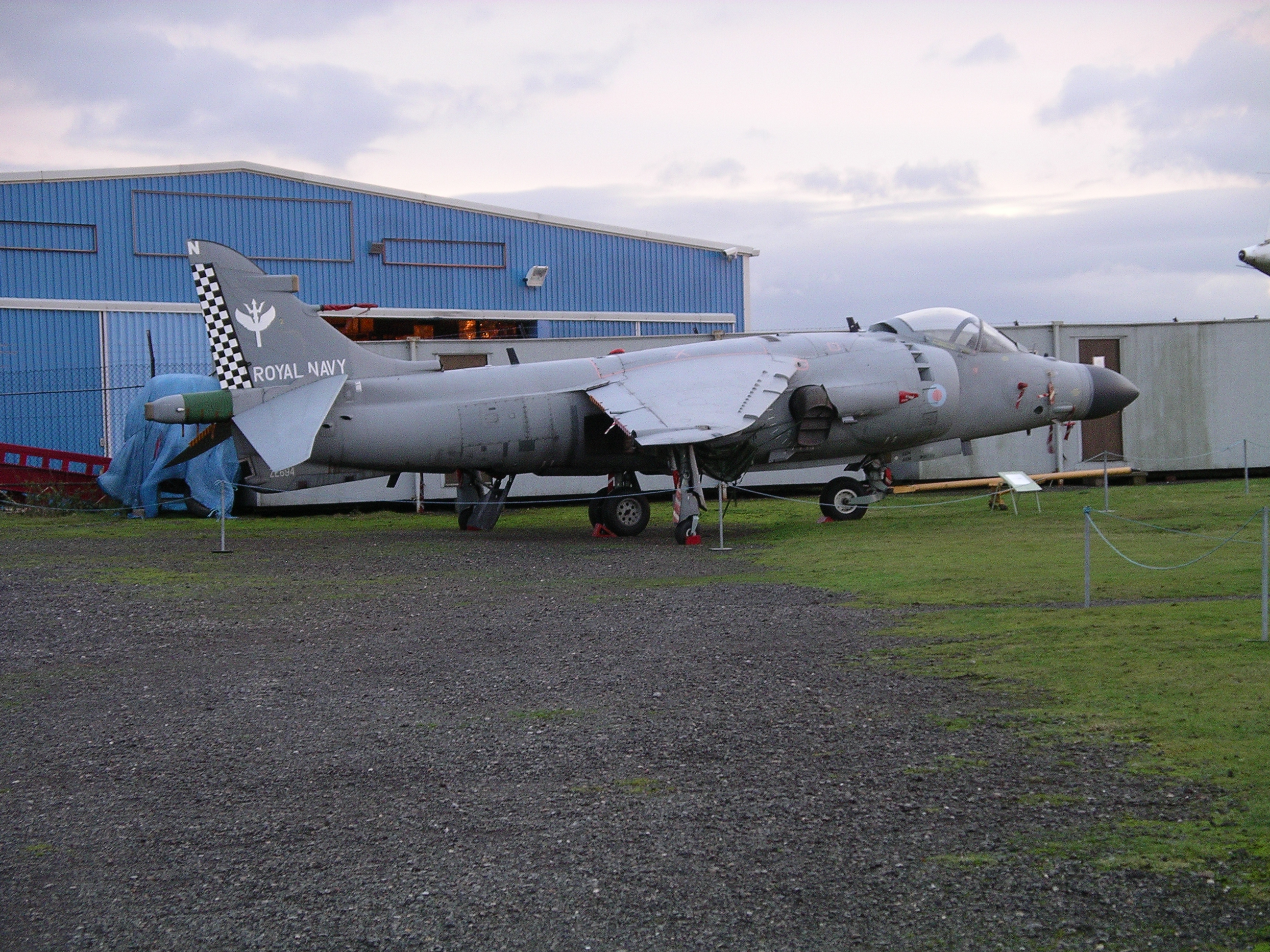 BEA Sea Harrier FA.2 ZE694 on display at the Midland Air Museum, Coventry, England.